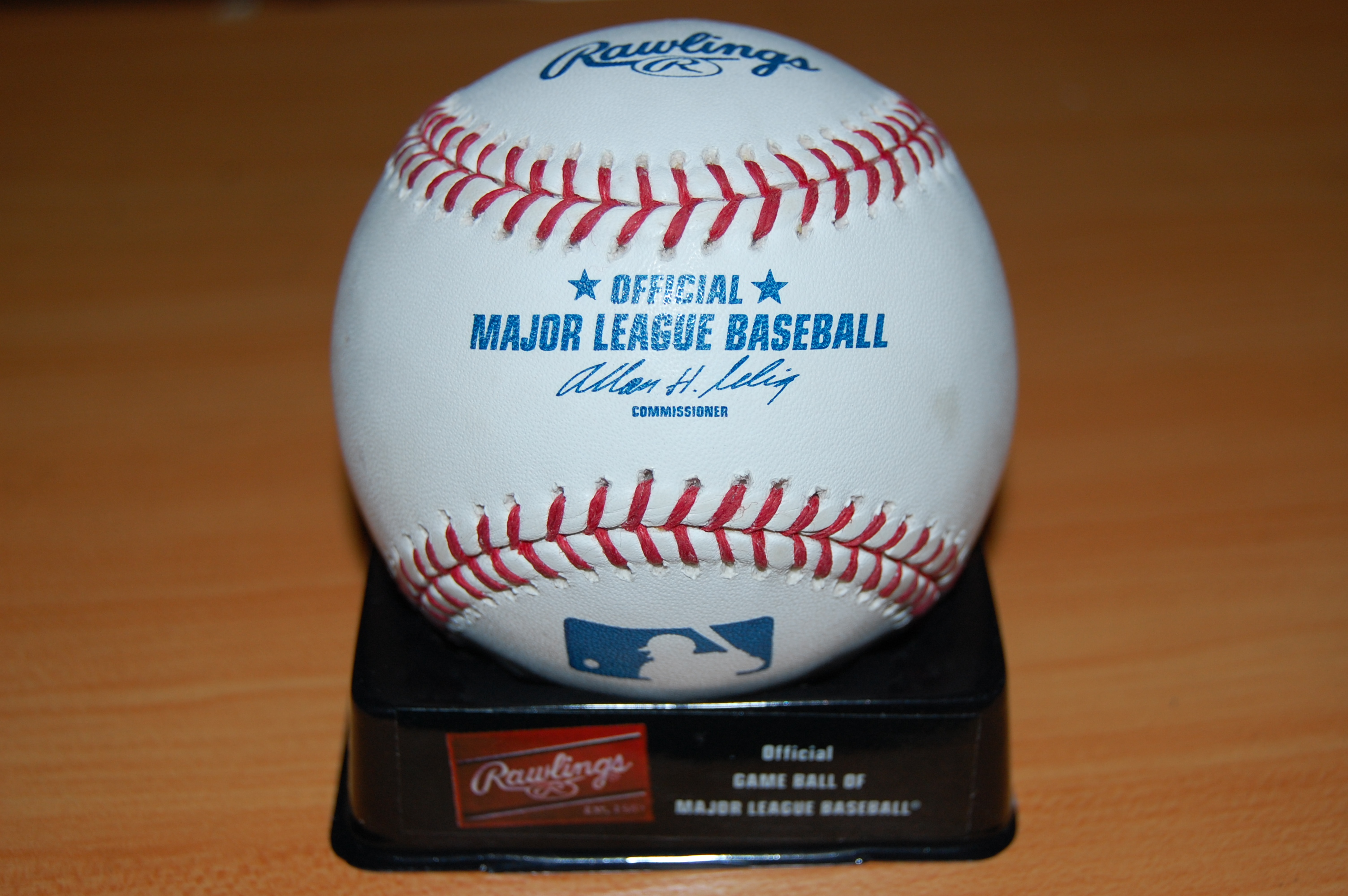 own work; gfdl 14:52, 30 June 2007 . . Onetwo1 . . 3008×2000 (1,597,723 bytes)